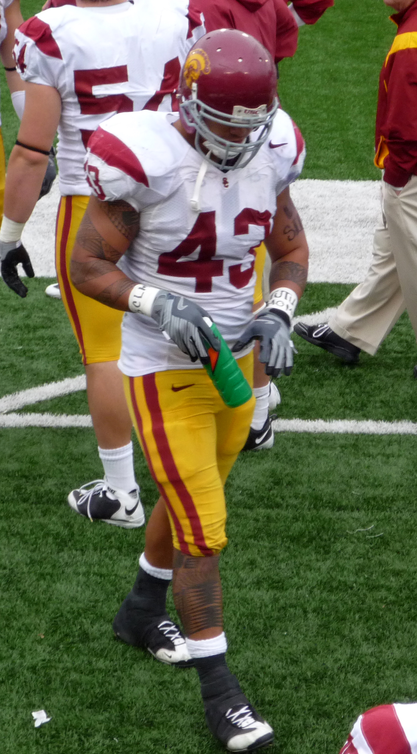 USC Trojans linebacker Kaluka Maiava, on the sidelines during a game versus the Washington State Cougars in the 2008 season.